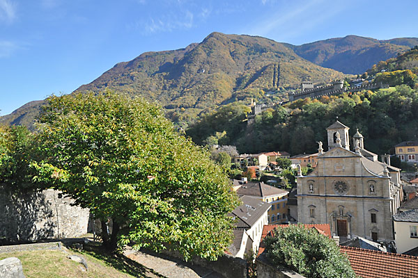 The church: Collegiata dei ss Pietro e Stefano in Bellinzona Switzerland